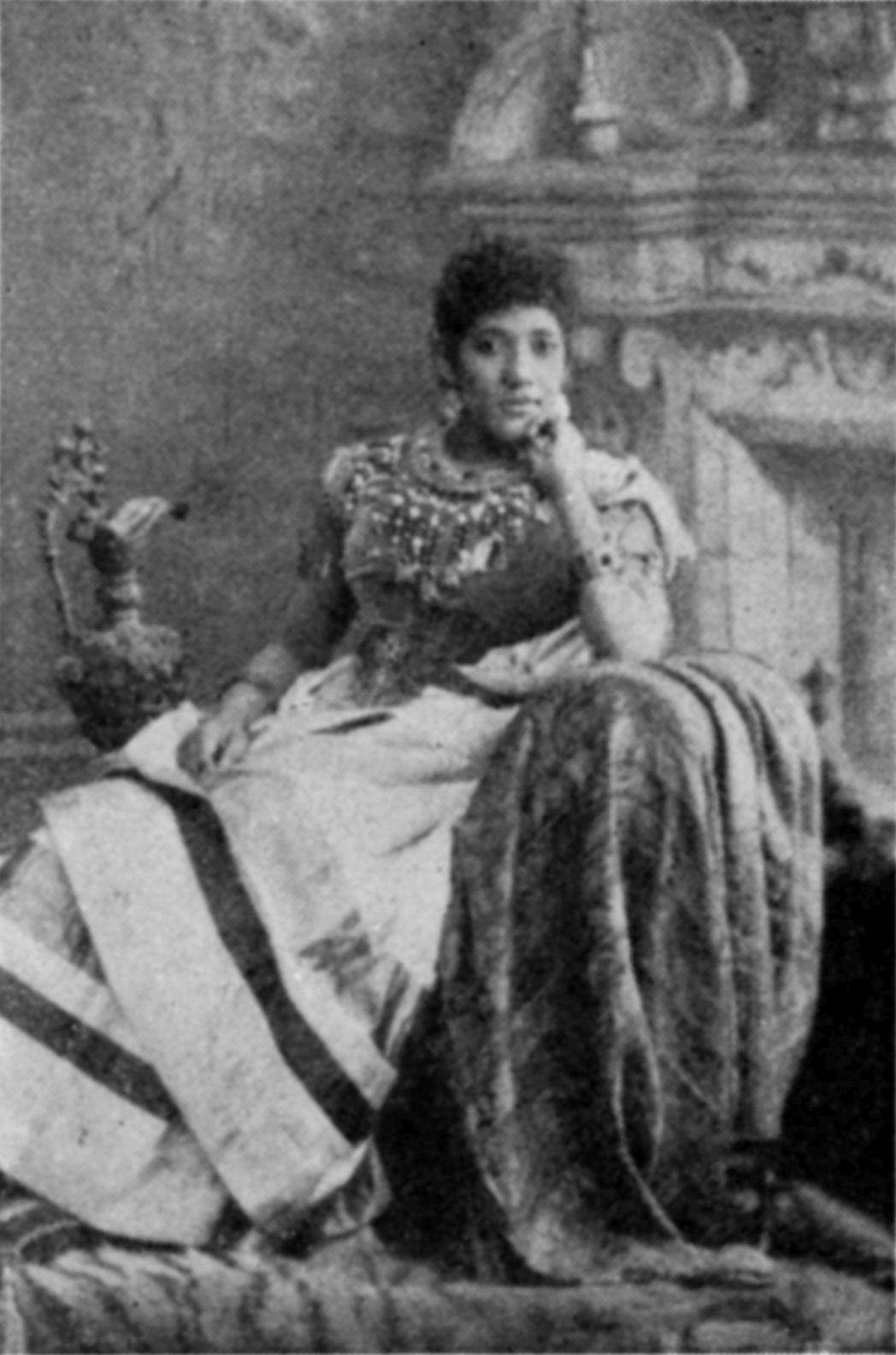 Photograph of Madame Selika